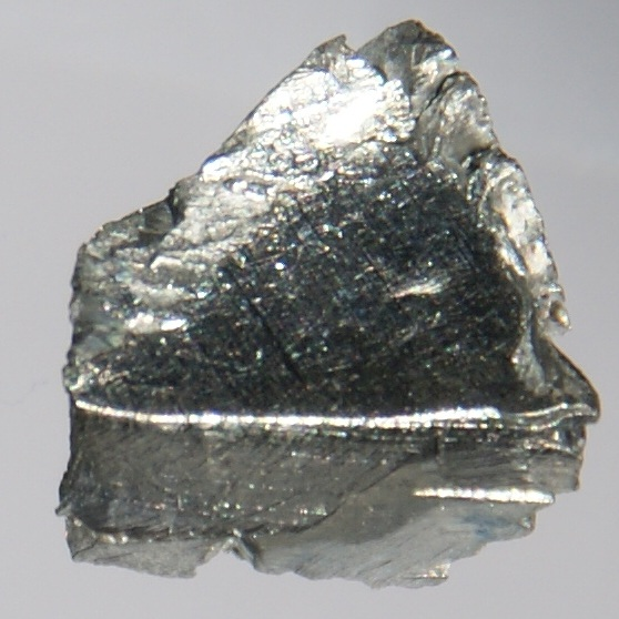 Ultrapure piece of lutetium, 3 grams. Original size in cm: 1 x 1